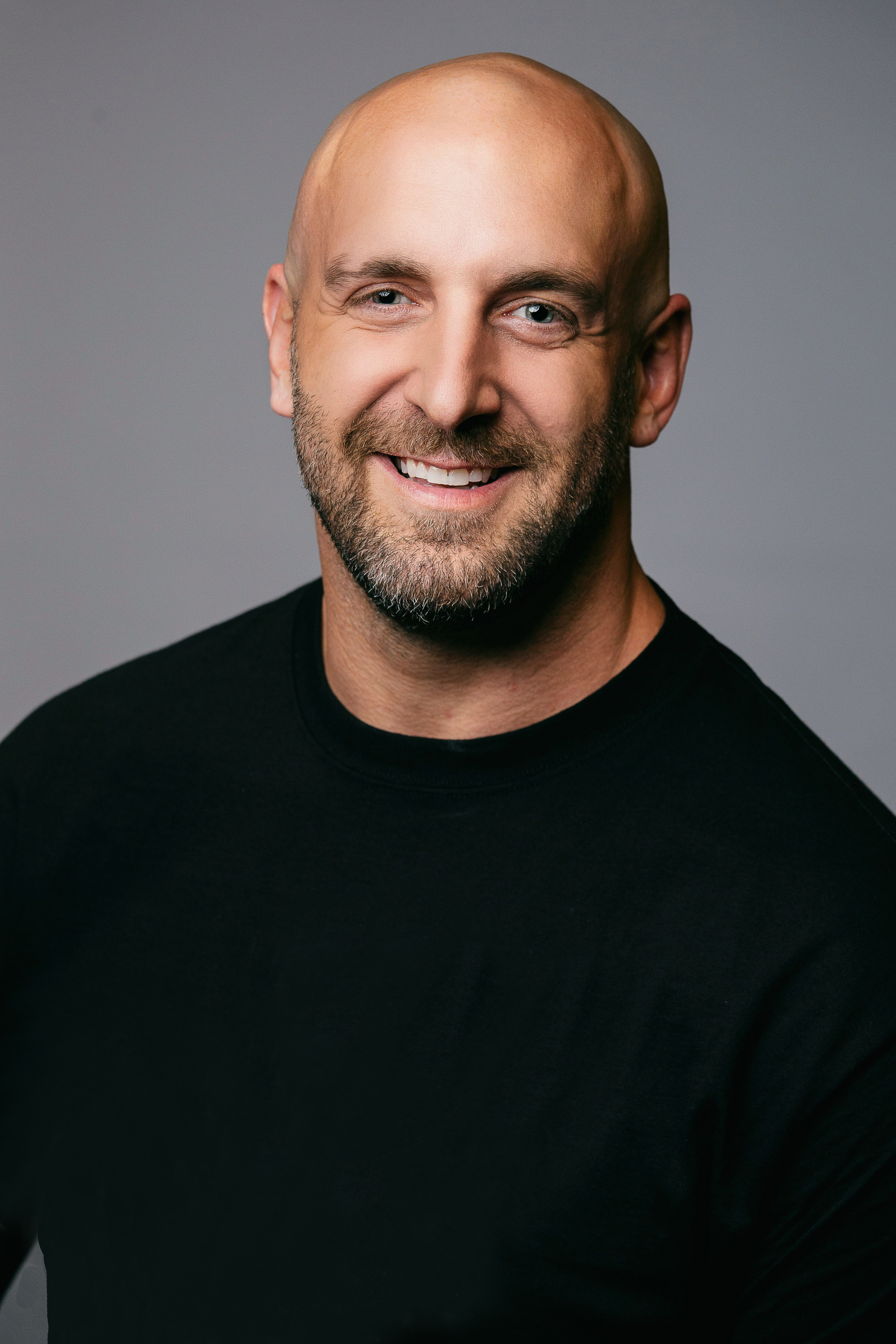 Paul Jarrett is the CEO & Co-Founder of Bulu, the industry authority in creating private-label Subscription Box businesses for the world's largest retail brands. Paul and his Co-Founder, Stephanie launched Bulu's flagship program, Bulu Box in 2012 as the 6th Subscription Box to the market. Paul quickly gained recognition as a trailblazer and has been featured by Entrepreneur Magazine, Forbes, PBS, Inc., CBS News, and other major media outlets. Paul is well-known as an e-commerce and consumer packaged goods expert, as well as a memorable keynote speaker.